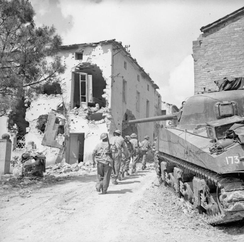 The British Army in Italy 1944 Infantry of the 6th Inniskillings and a Sherman tank advance through Pucciarelli, 25 June 1944.